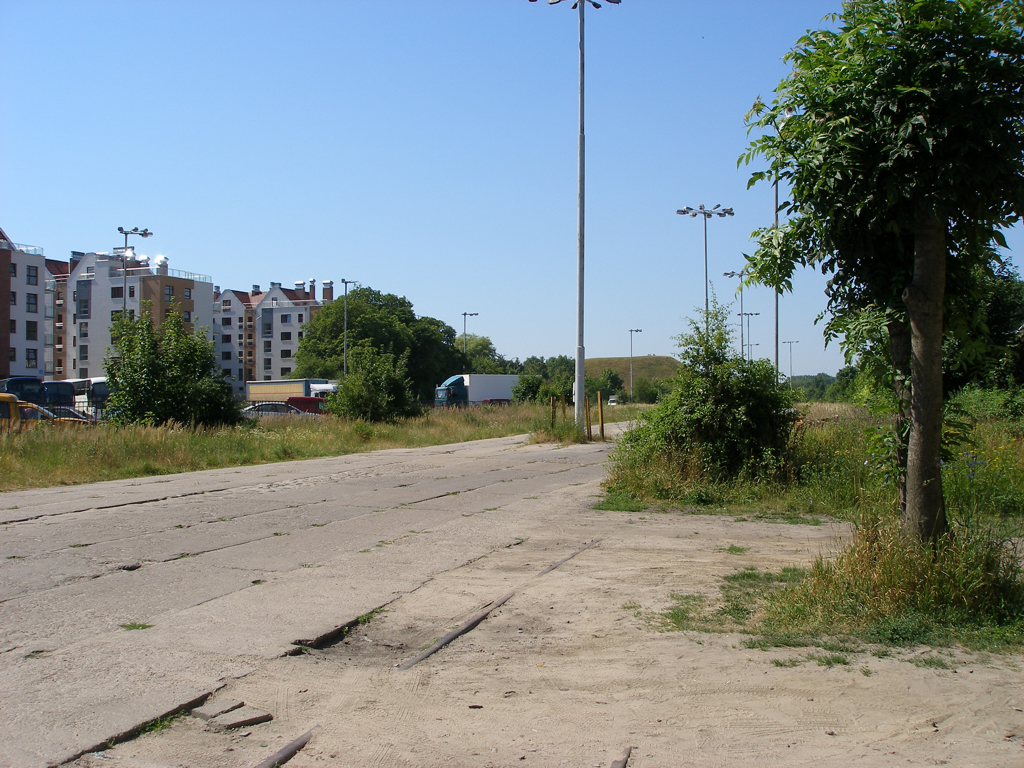 Old railway station Gdańsk Kłodno.